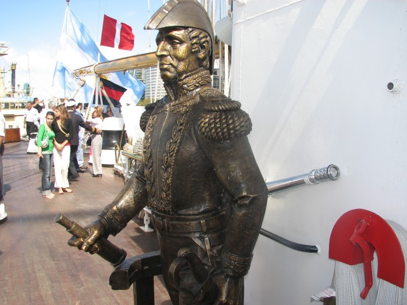 Admiral Brown